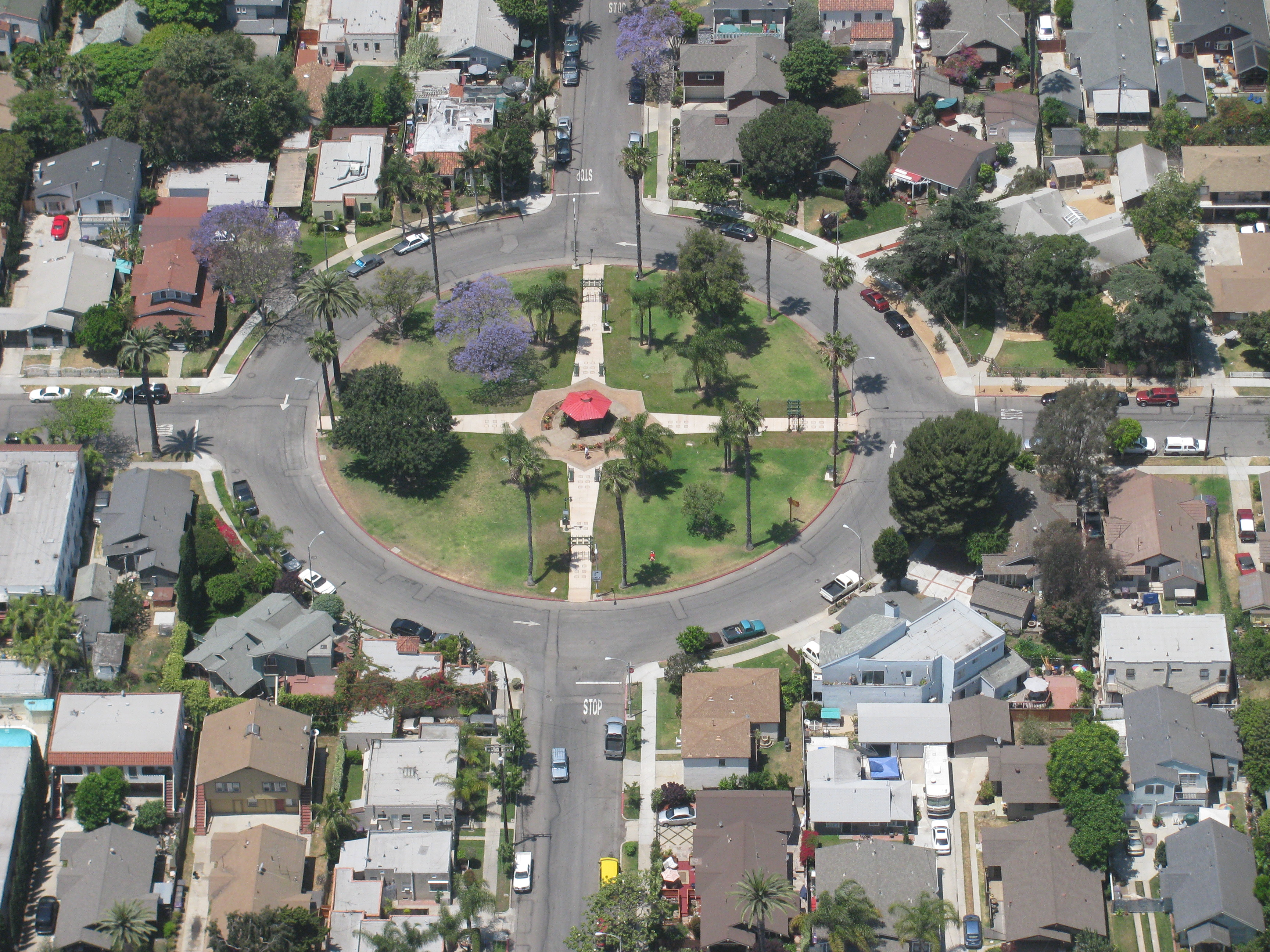 Rose Park, Long Beach airview made during a Zeppelin Flight With Burt Rutan At The Helm